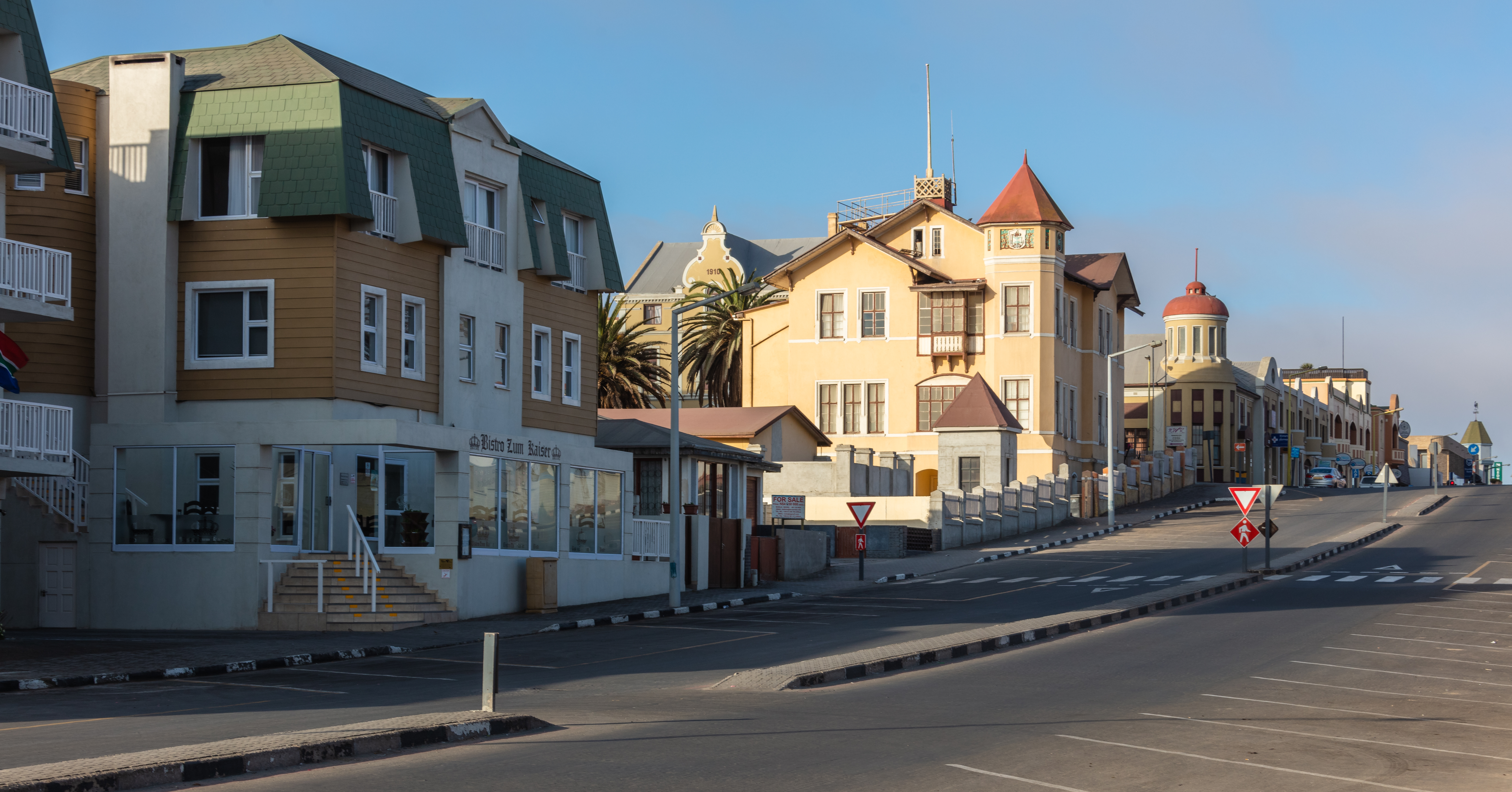 Sam Nujoma Ave, Swakopmund, Namibia